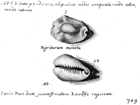 Nigritarum moneta on Plate 709